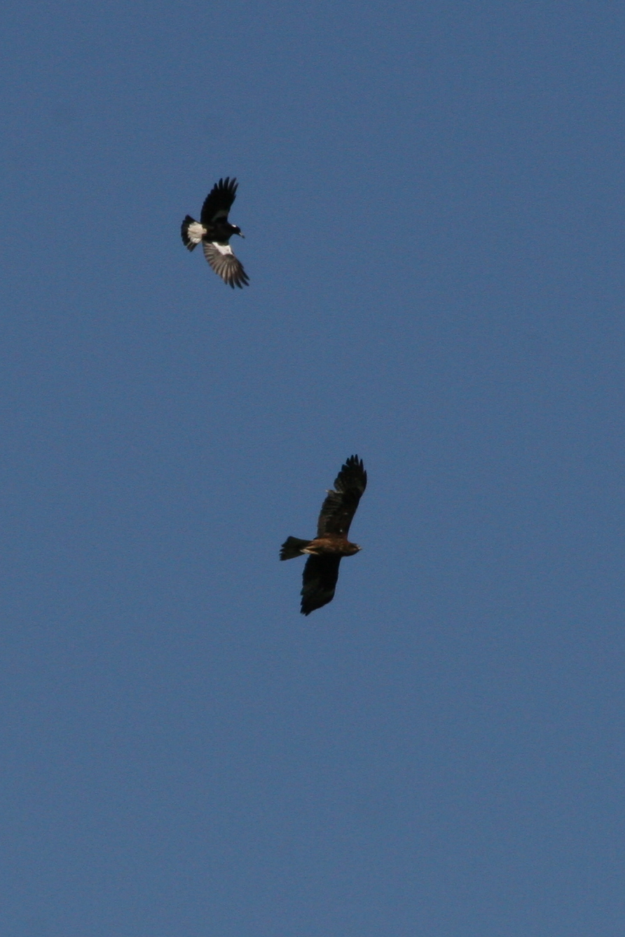 Swamp Harrier (Circus approximans) juvenile being pursued by an Australian Magpie (Cracticus tibicen). Over paddocks at Kangaroo Flat, Victoria, Australia.